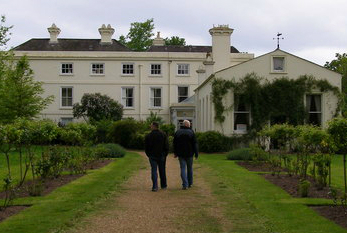 Morden Hall The east side of the old house, seen from the bridge leading into Morden Hall Park.